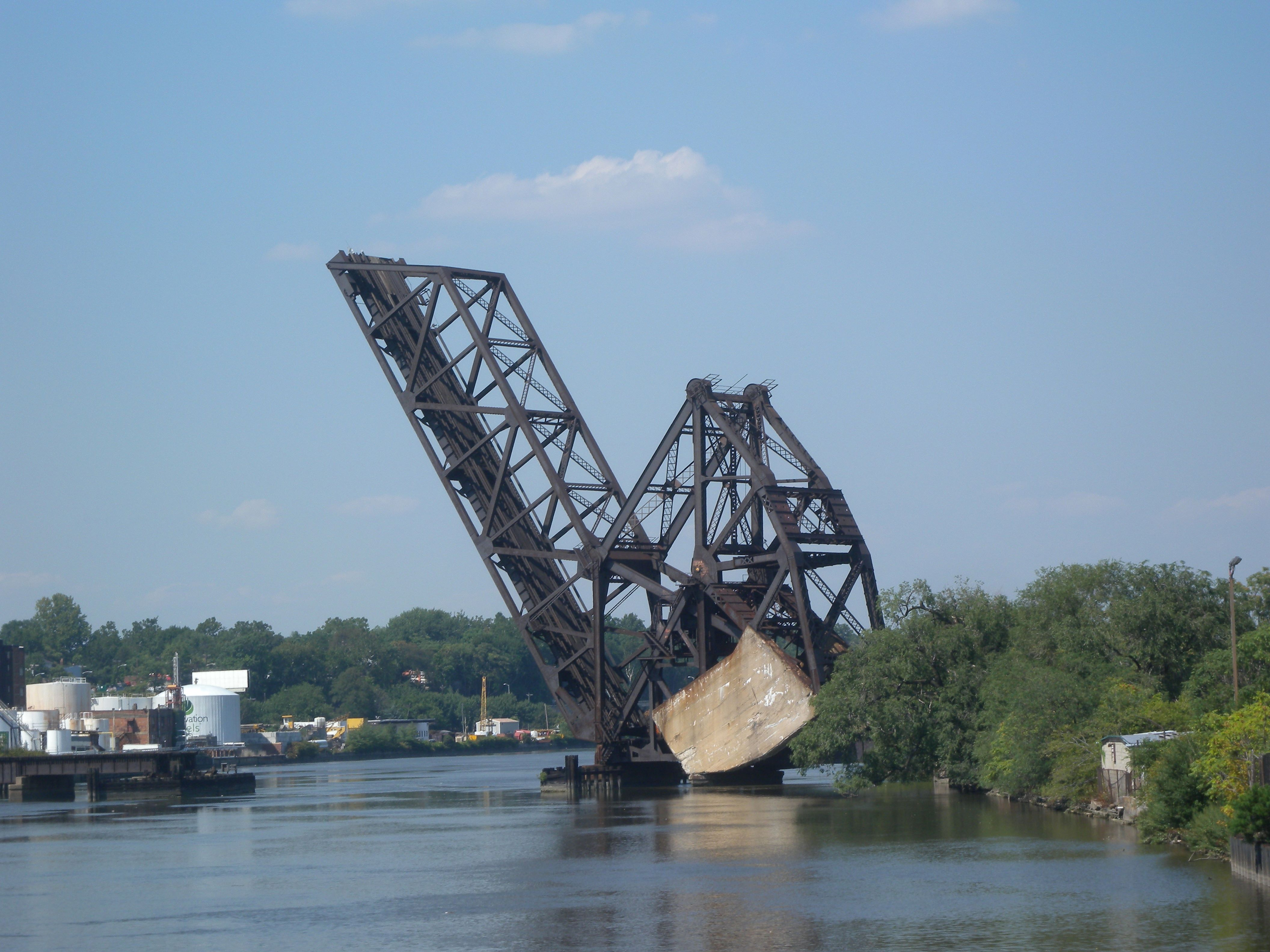 Looking north from eastern (East Newark) part of Clay St Bridge at former E-L rail bridge on a sunny midday.